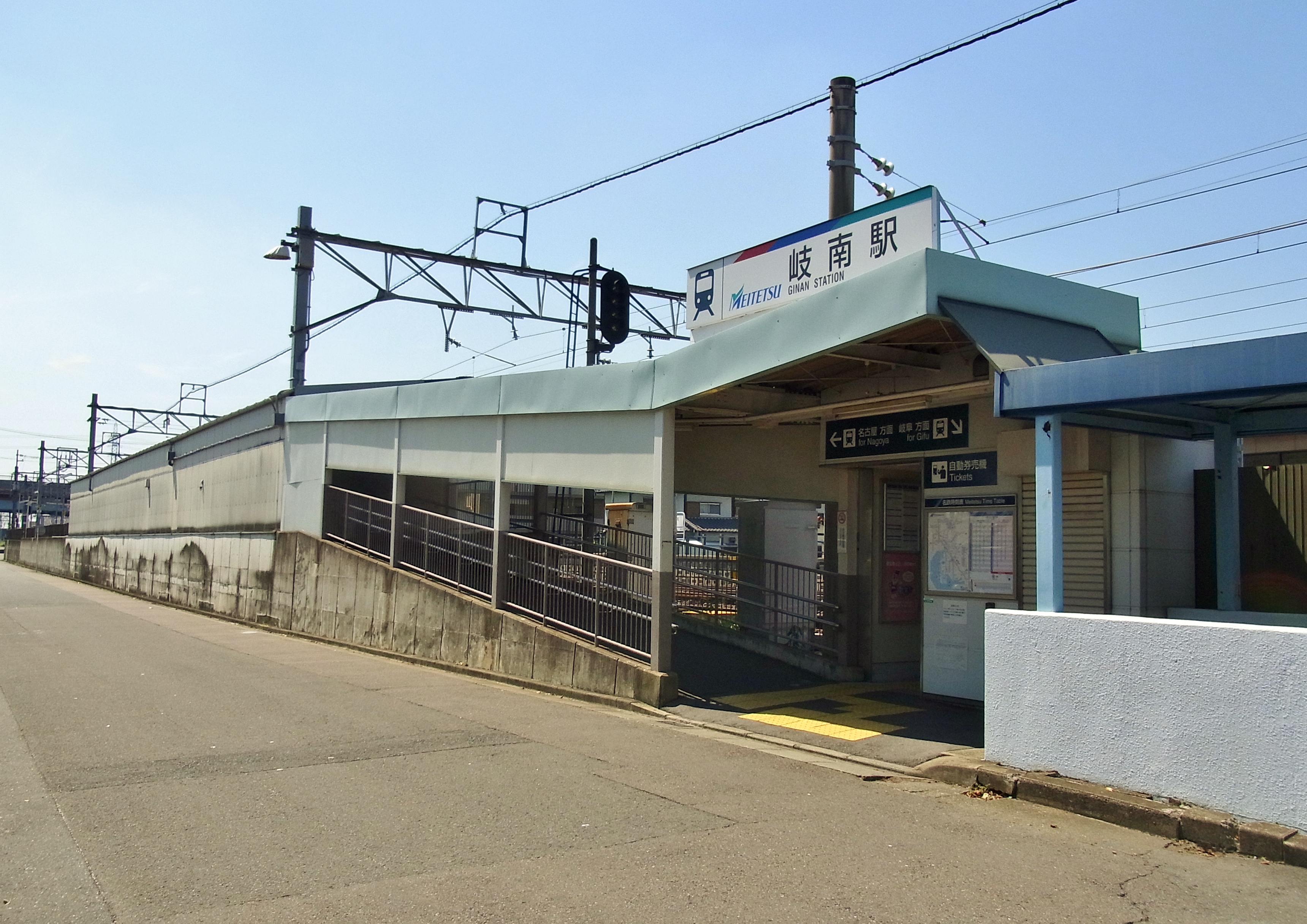 Ginan Staiton in Ginan Town, Gifu prefecture.